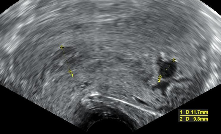 Transvaginal ultrasonography in a 32 year old woman with a pregnancy of a gestational age of 6 or 7 weeks from last menstrual period, who contacted the clinic because of vaginal bleeding. It shows some products of conception in the cervix (to the left in the image) and remnants of a gestational sac by the fundus (to the right in the image), indicating an incomplete miscarriage.